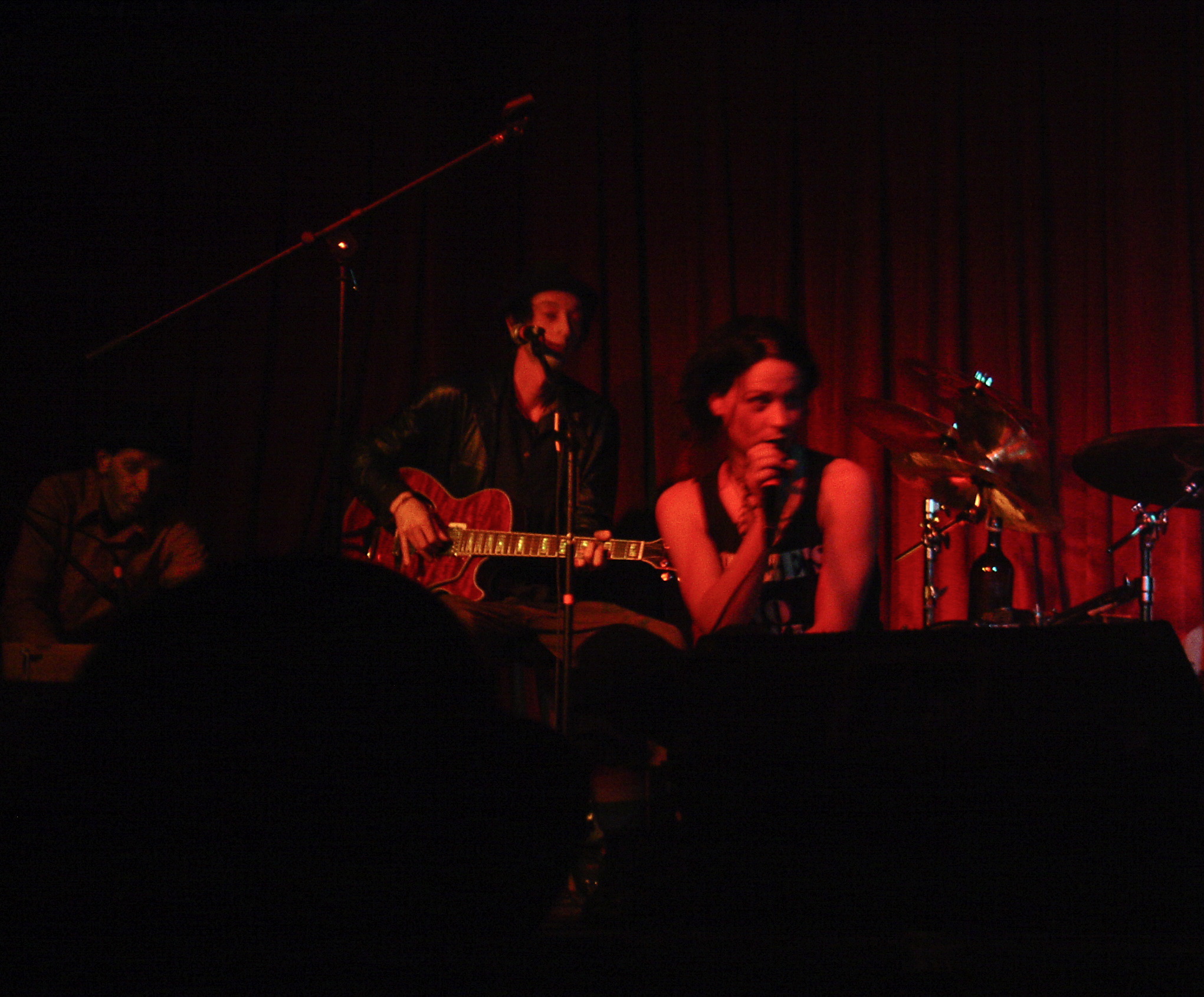 Humanwine performing at AS220 in Providence, Rhode Island on 2006-01-19.